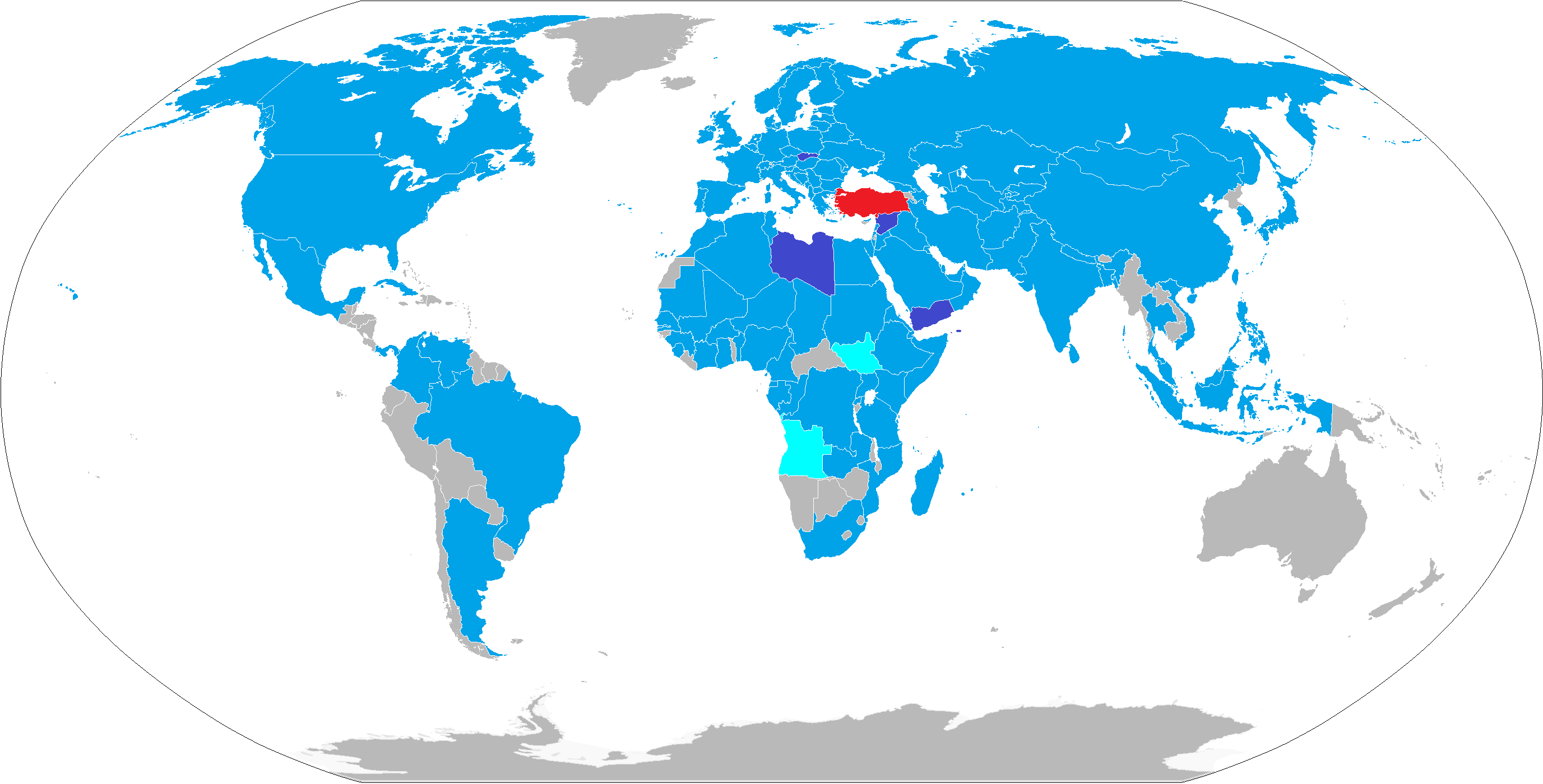 World map shows the countries that TK flies (blue), the countries that TK is planning to fly (light blue) and the countries that TK has suspended flights (dark blue).